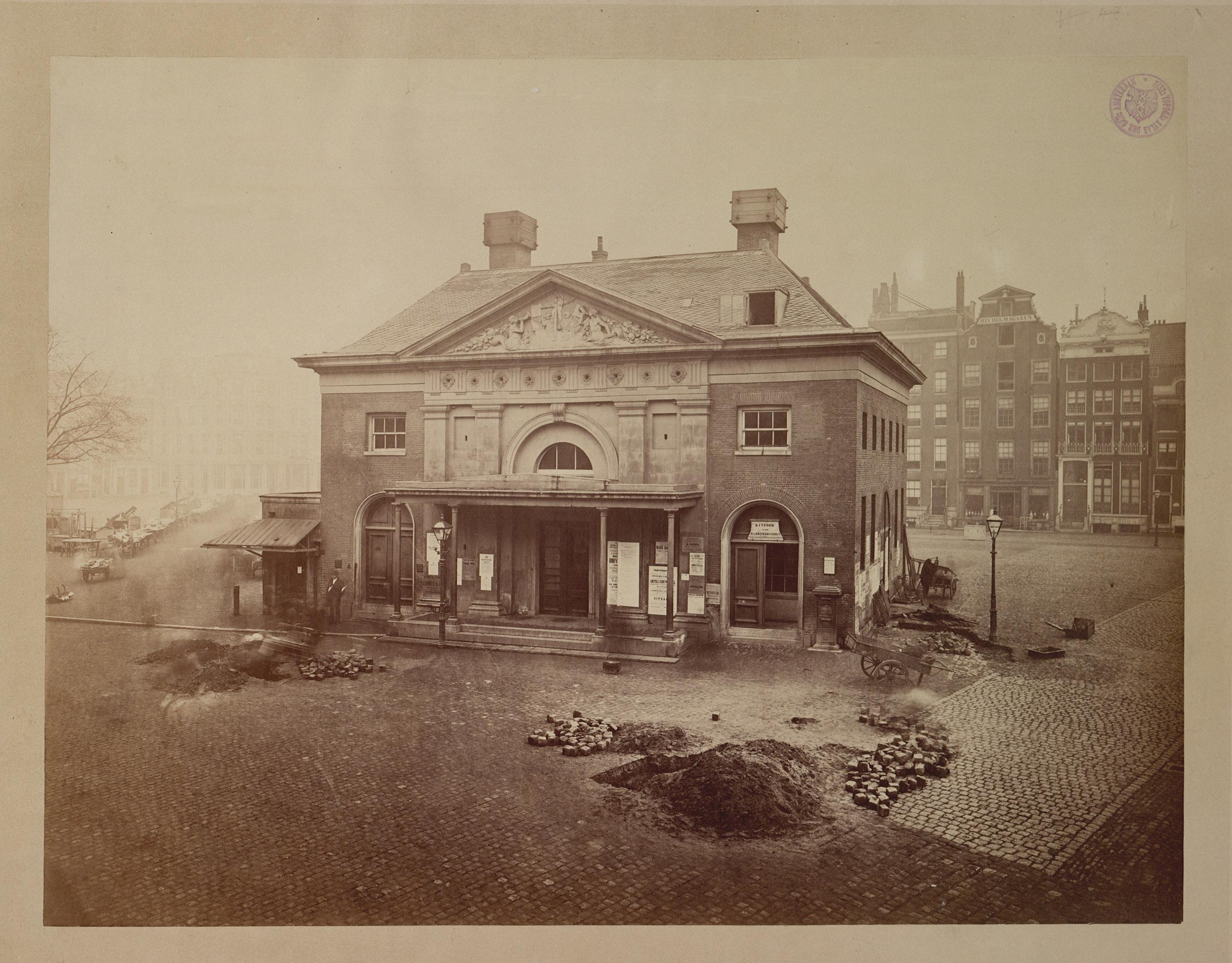 The Boterwaag on the Rembrandt Square in Amsterdam, just before the demolition in 1874.